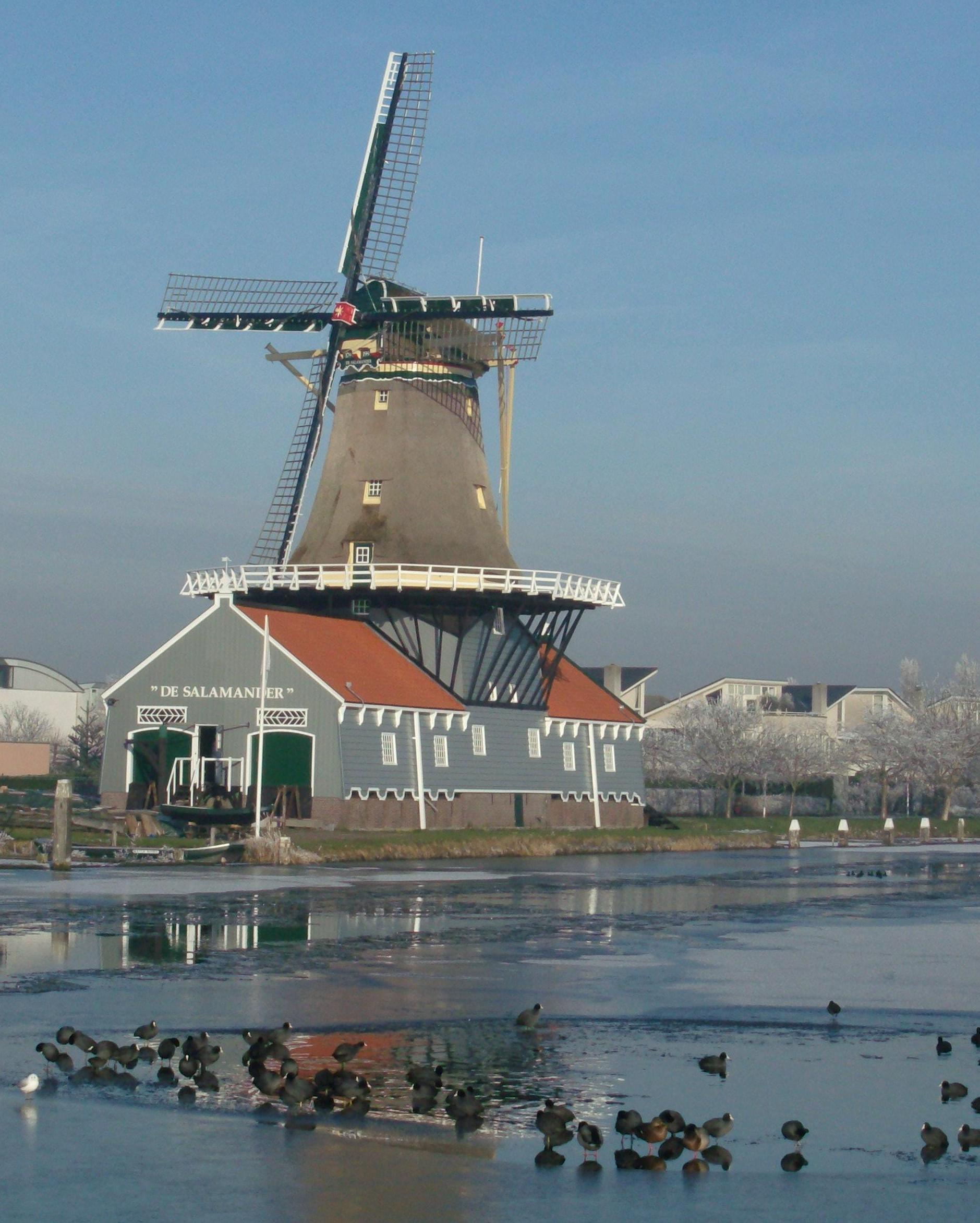 "The Salamander" is a beautiful sawmill in Leidschendam in The Netherlands, not far from The Hague. Built in 1777, it was used until 1953, when it fell into disrepair. It was beautifully restored in the period:1989-1996. The mill is open for visitors every wednesday en saturday from 14.00-16.00hrs. Entry is free of charge. Web site